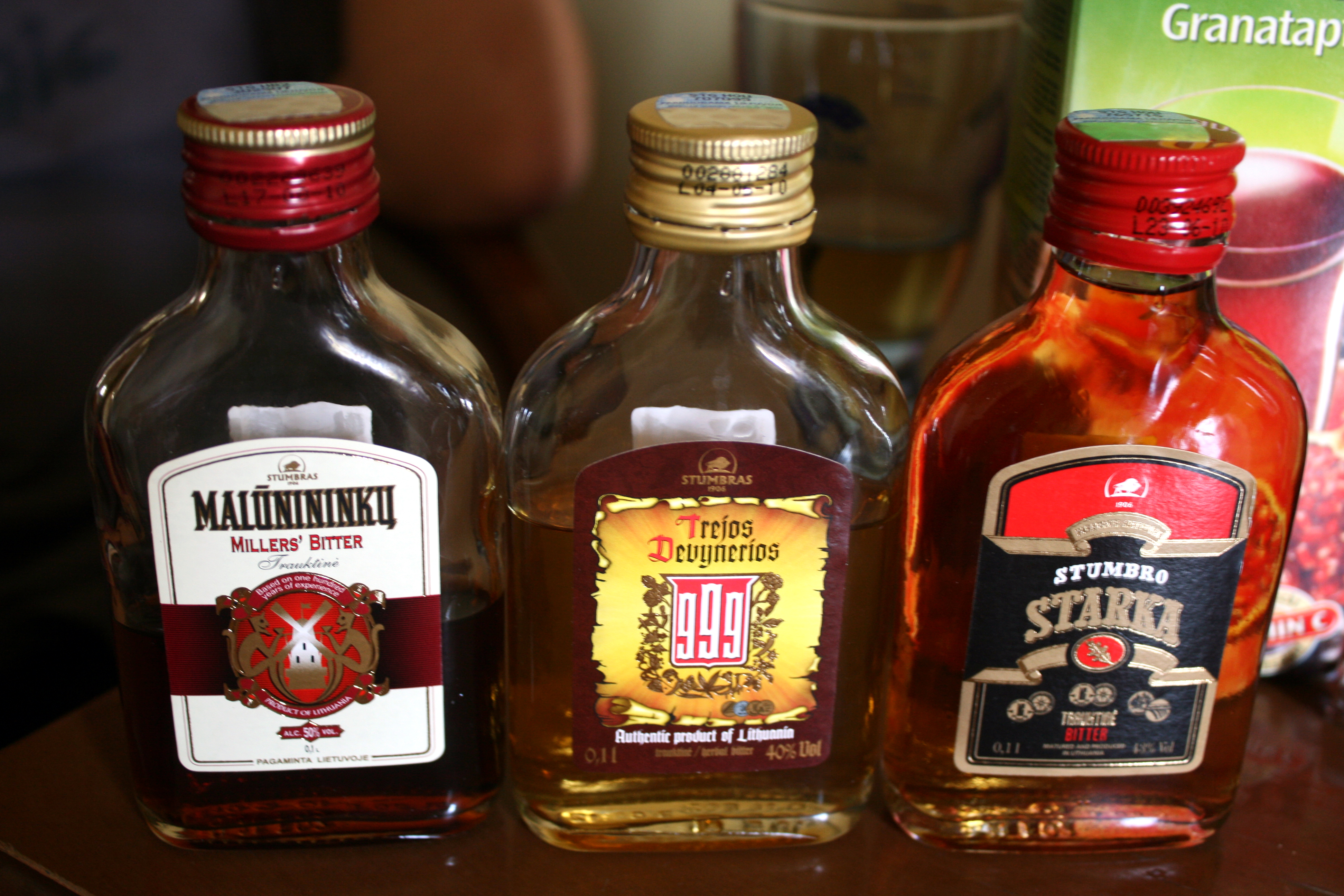 Lithuanian liquer and vodkas: Malūnininkų, Treios Devynerios and Starka